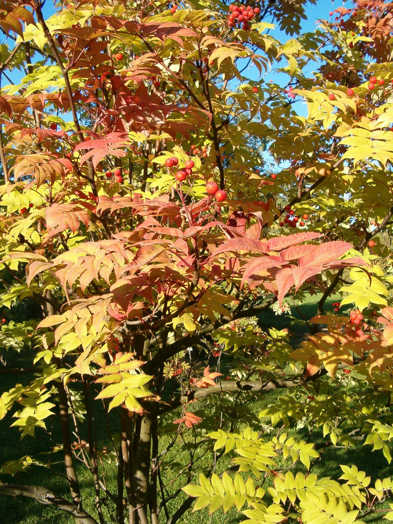 Location: Botanical Gardens Berlin Habitus, Leaves and Fruits at Fall